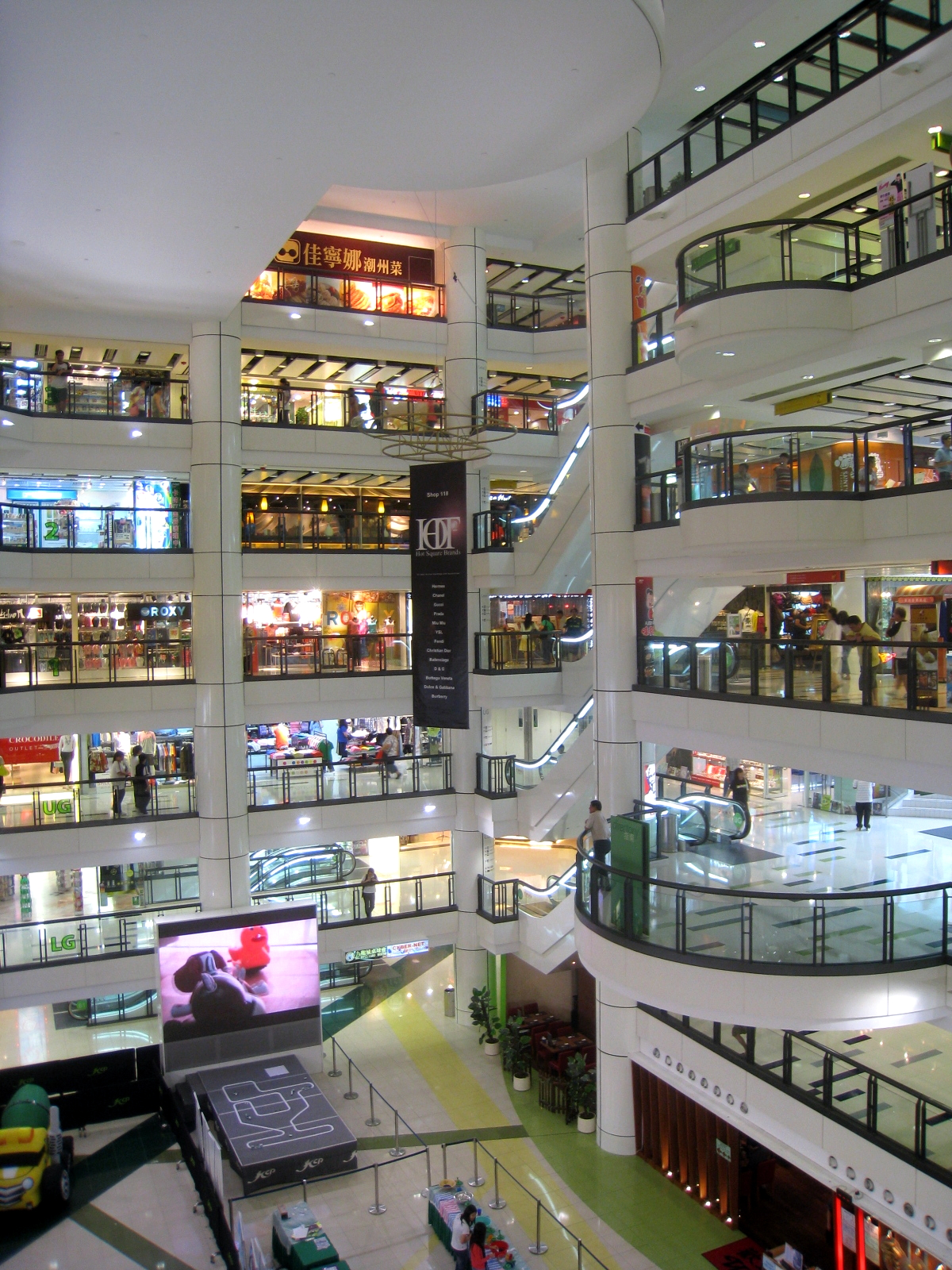 Kowloon City Plaza 九龍城廣場